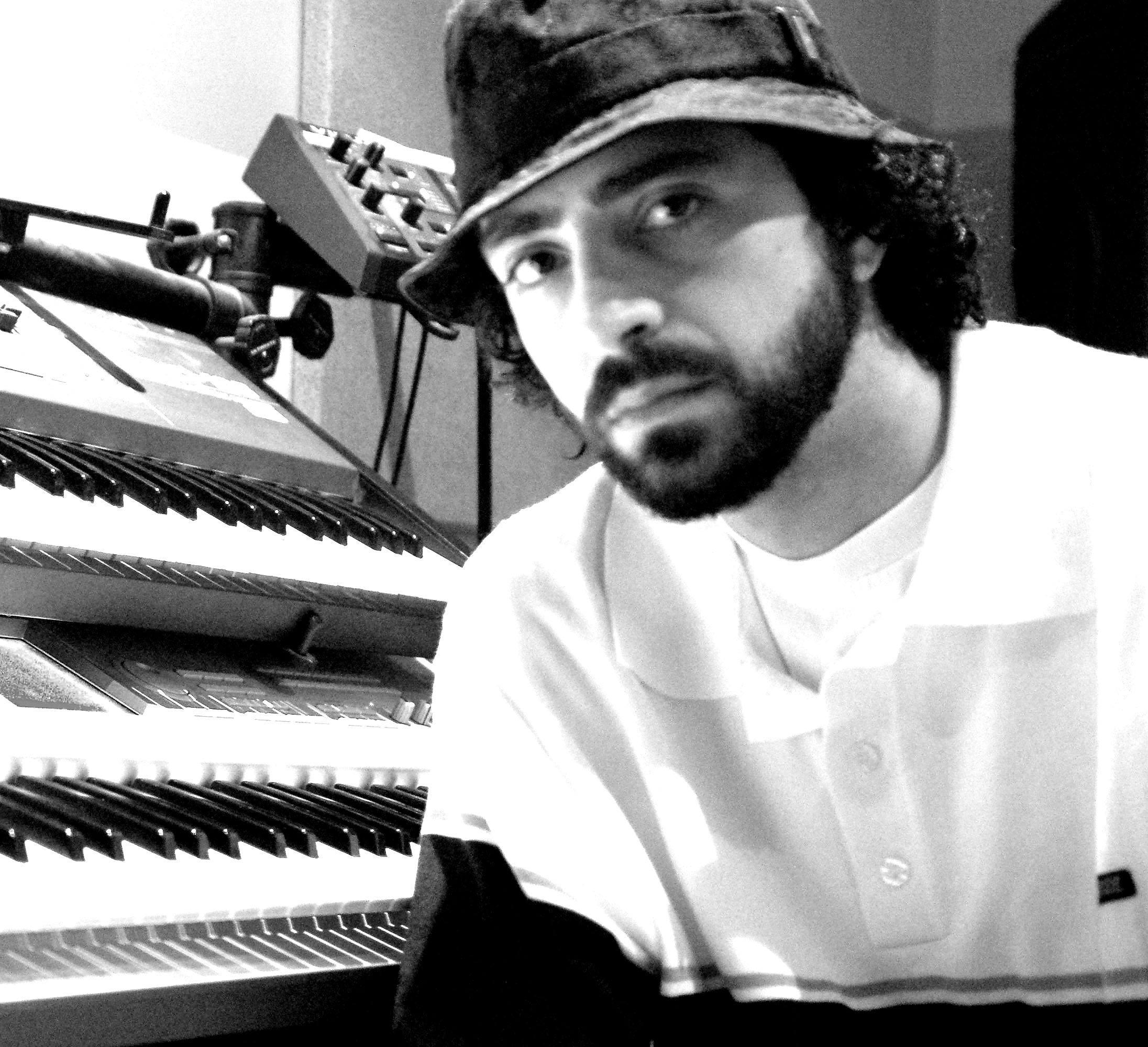 Fredwreck in the studio working